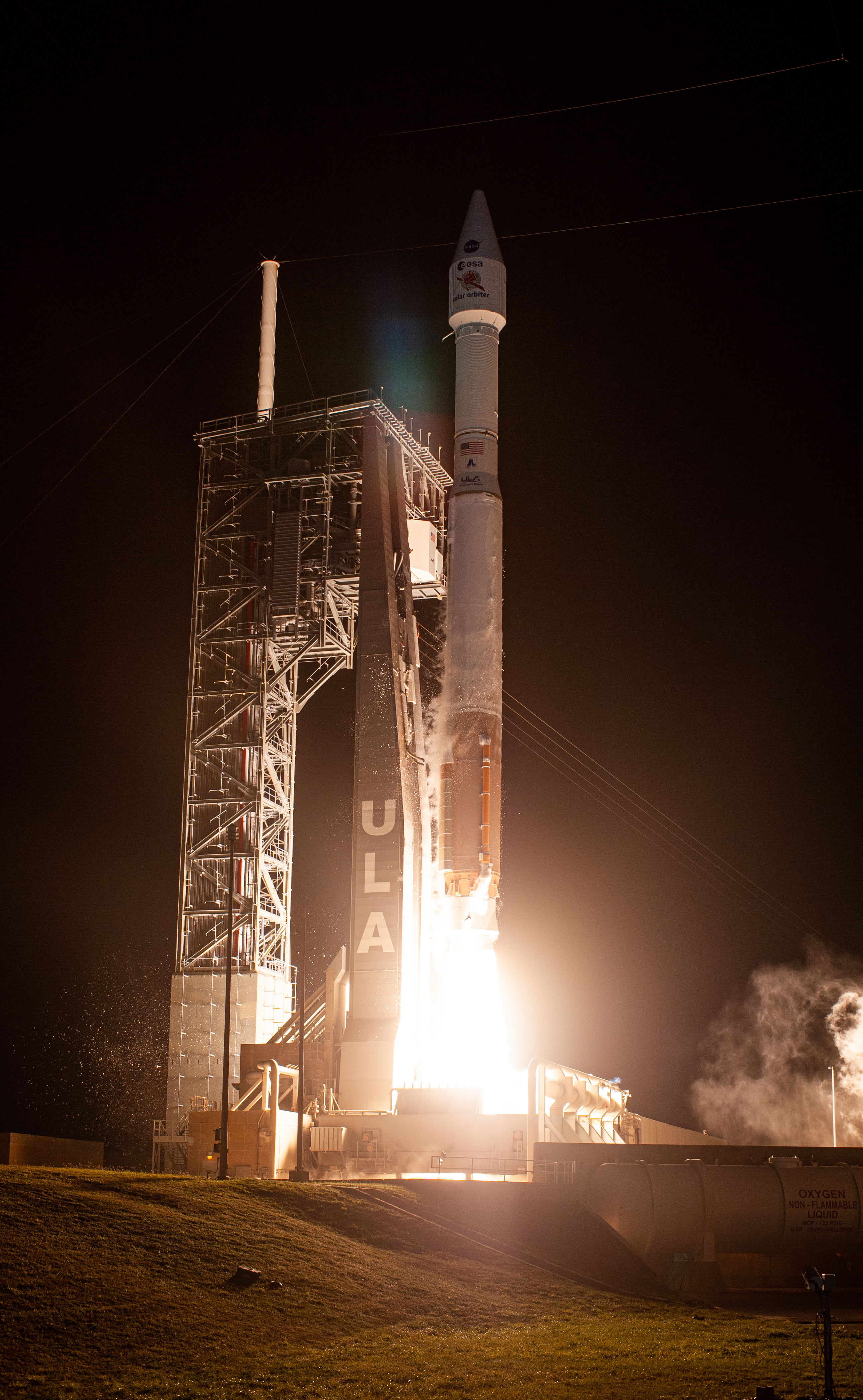 The United Launch Alliance Atlas V rocket, carrying the Solar Orbiter, lifts off Space Launch Complex 41 at Cape Canaveral Air Force Station in Florida at 11:03 p.m. EST, on Feb. 9, 2020. Solar Orbiter is an international cooperative mission between ESA (European Space Agency) and NASA. The mission aims to study the Sun, its outer atmosphere and solar wind. The spacecraft will provide the first images of the Sun’s poles. The spacecraft was developed by Airbus Defence and Space. NASA’s Launch Services Program based at Kennedy managed the launch.